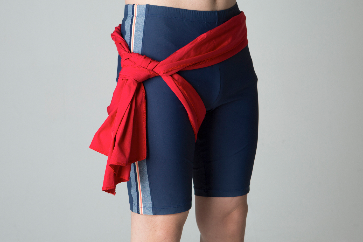 Satba (cloth sash)